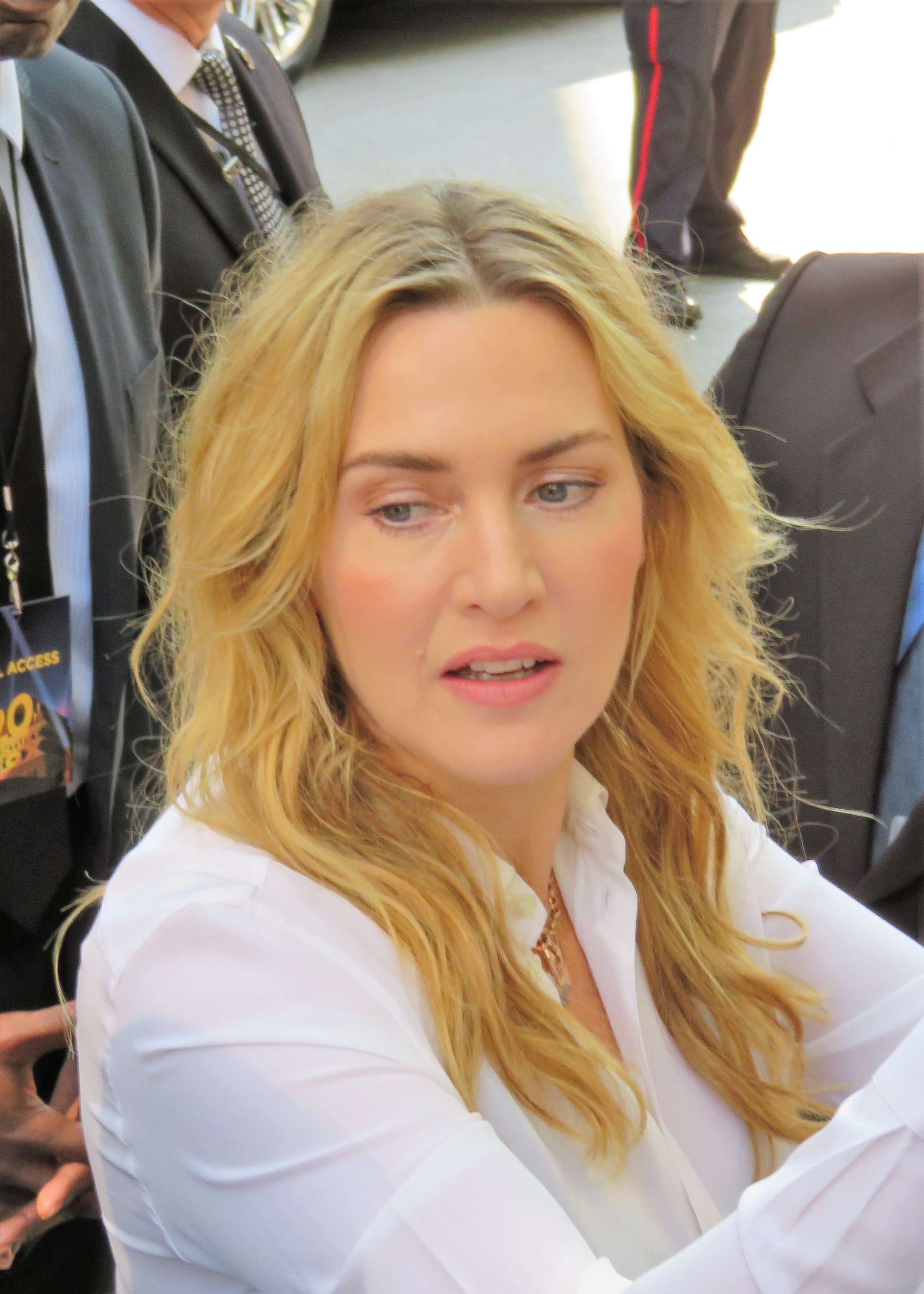 Kate Winslet at the press conference of The Mountain Between Us, 2017 Toronto Film Festival